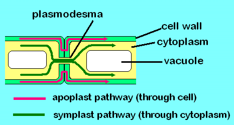 this picture shows the apoplast pathway and the symplast pathway, which are two ways for plants to transport water from roots to the xylem.